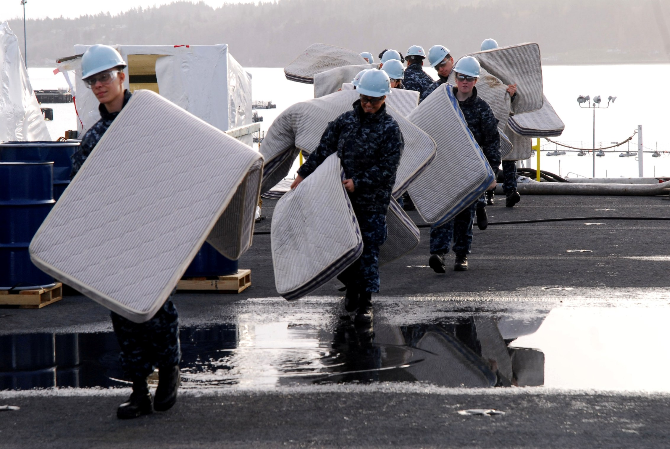 NAVAL BASE KITSAP-BREMERTON, Wash. (April 2, 2012) Sailors move mattresses across the flight deck of the aircraft carrier USS Ronald Reagan (CVN 76). Ronald Reagan is homeported in Bremerton, Wash., while undergoing a docked planned incremental availability maintenance period at Puget Sound Naval Shipyard & Intermediate Maintenance Facility (U.S. Navy photo by Mass Communication Specialist Seaman Kevin Hastings/Released) 120402-N-MZ733-022